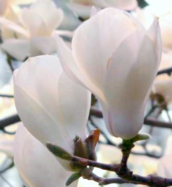 Yulan Magnolia (Magnolia denudata)